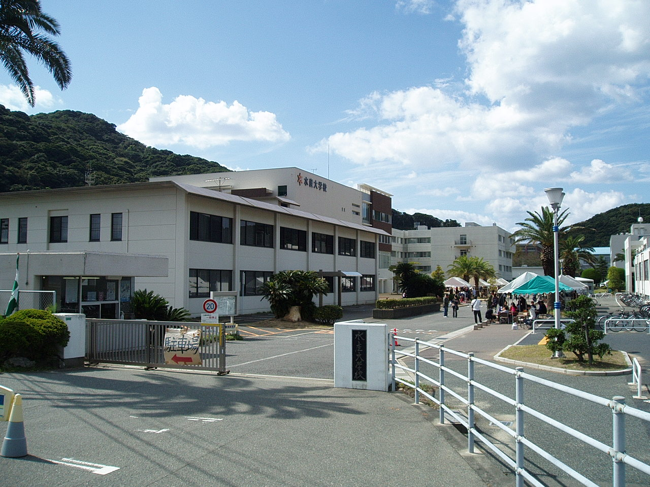 Main entrance to the National Fisheries University (Japan), located in Shimonoseki, Yamaguchi, Japan.